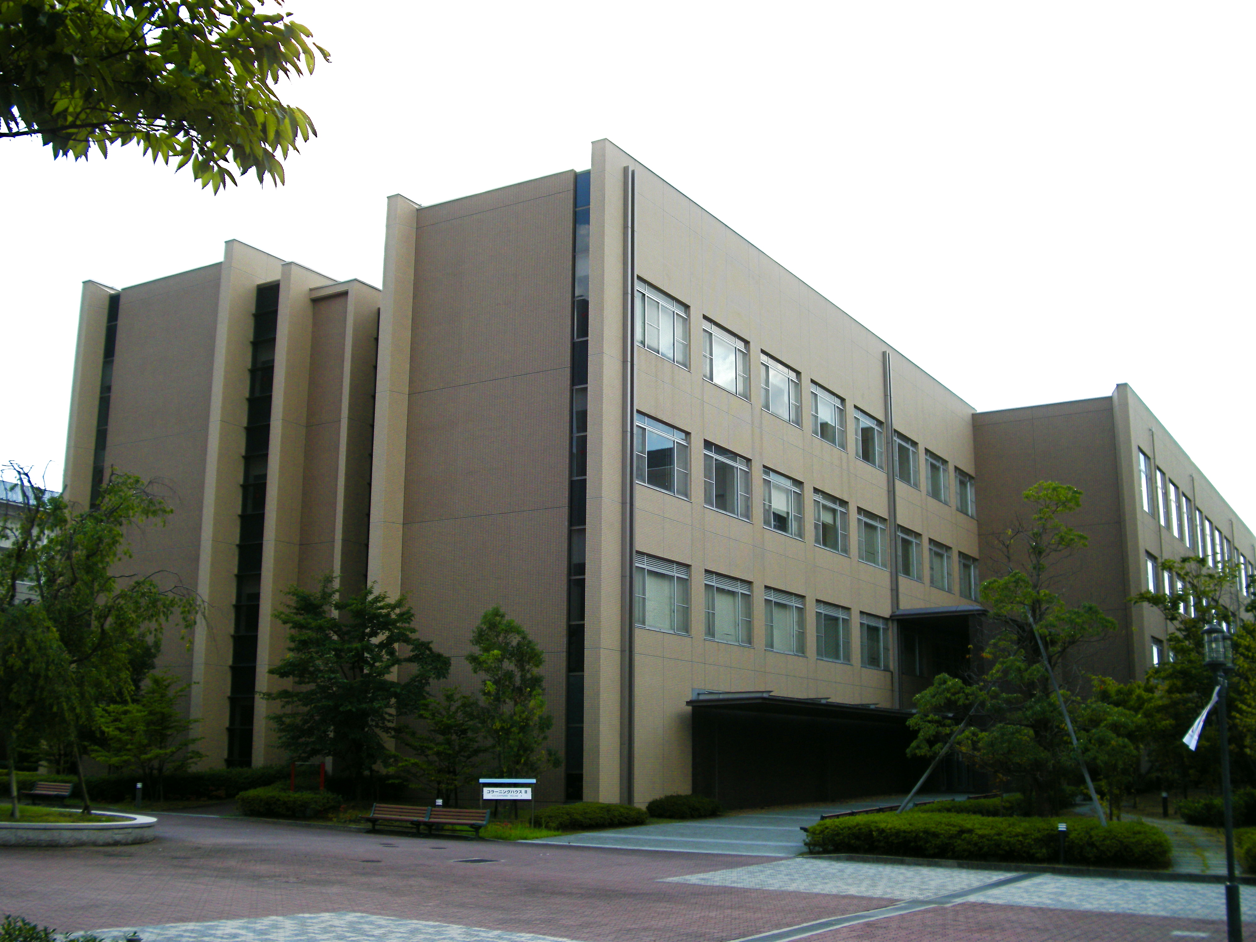 Co-Learning House II (Biwako Kusatsu Campus, Ritsumeikan University, Shiga, Japan)